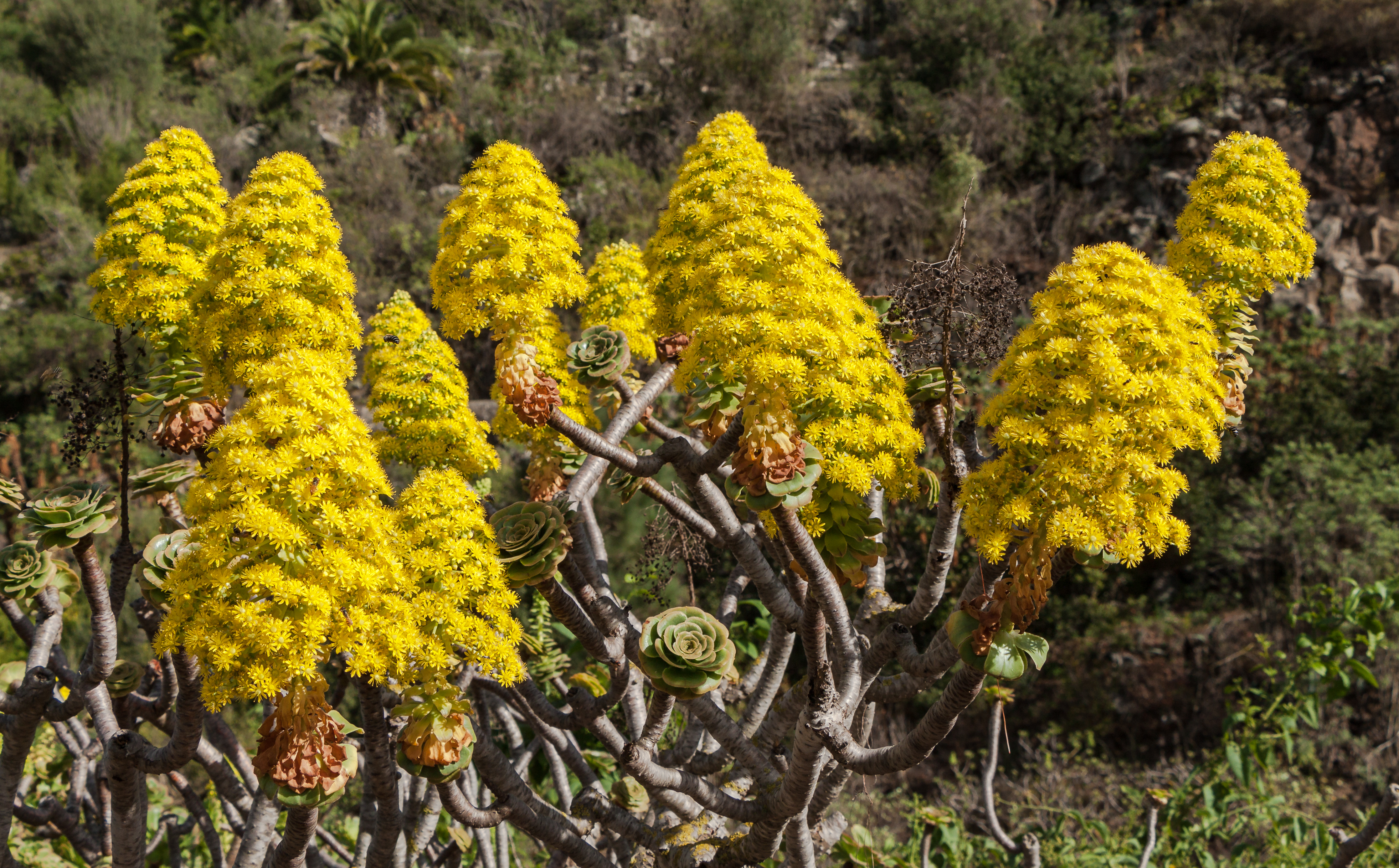 Aeonium arboreum (L.) Webb & Berthel., Tree Houseleek; Inflorescence; Jardín Botánico Canario Viera y Clavijo, Gran Canaria, Canary Islands, Spain.